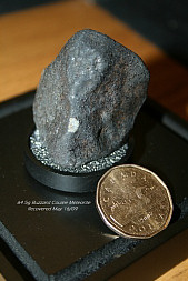 Buzzard Coulee meteorite was recovered on May 16-09 near Lone Rock Saskatchewan, Canada.